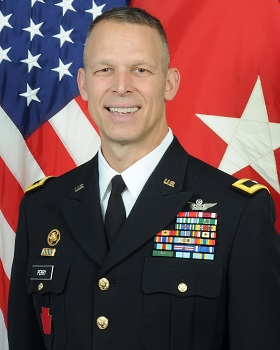 Brig. Gen. Scott G. Perry